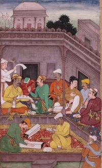 an outstanding collection of paintings from the Mughal courts, dating from the 16th to 18th centuries. This is exemplified by the Imperial Mughal painting, Bhisma and Yudhisthira Discuss the Issue of Trust: An Illustration from the Razm-nama, ca. 1598-1600.